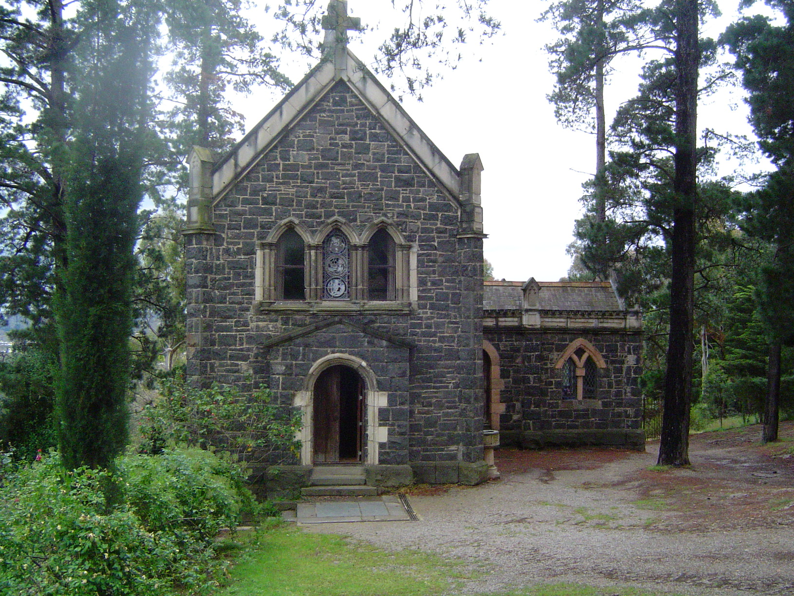 The Chapel at Montsalvat in 2004.